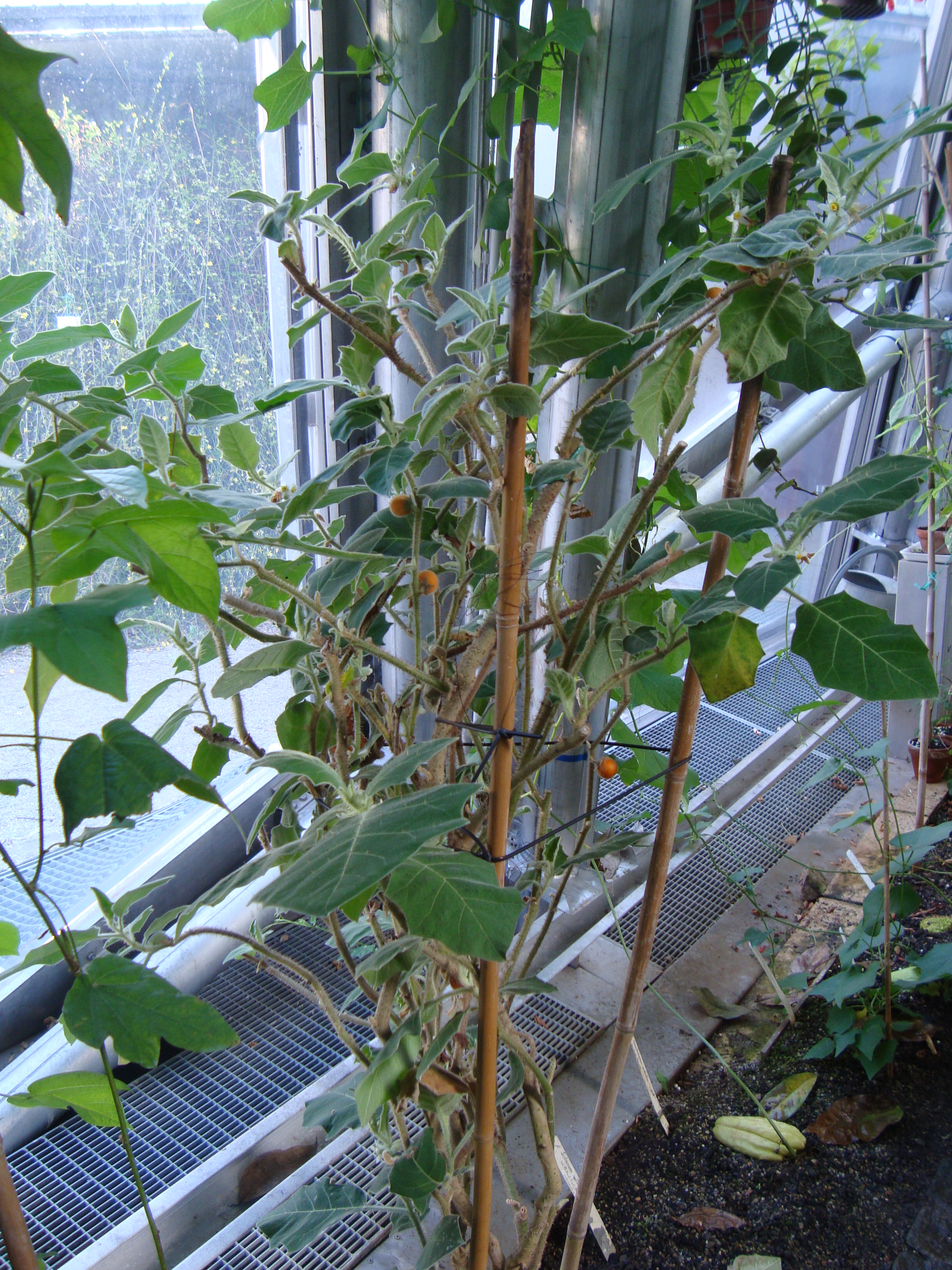 Solanum pseudolulo, shrub (botanical garden, Graz Austria